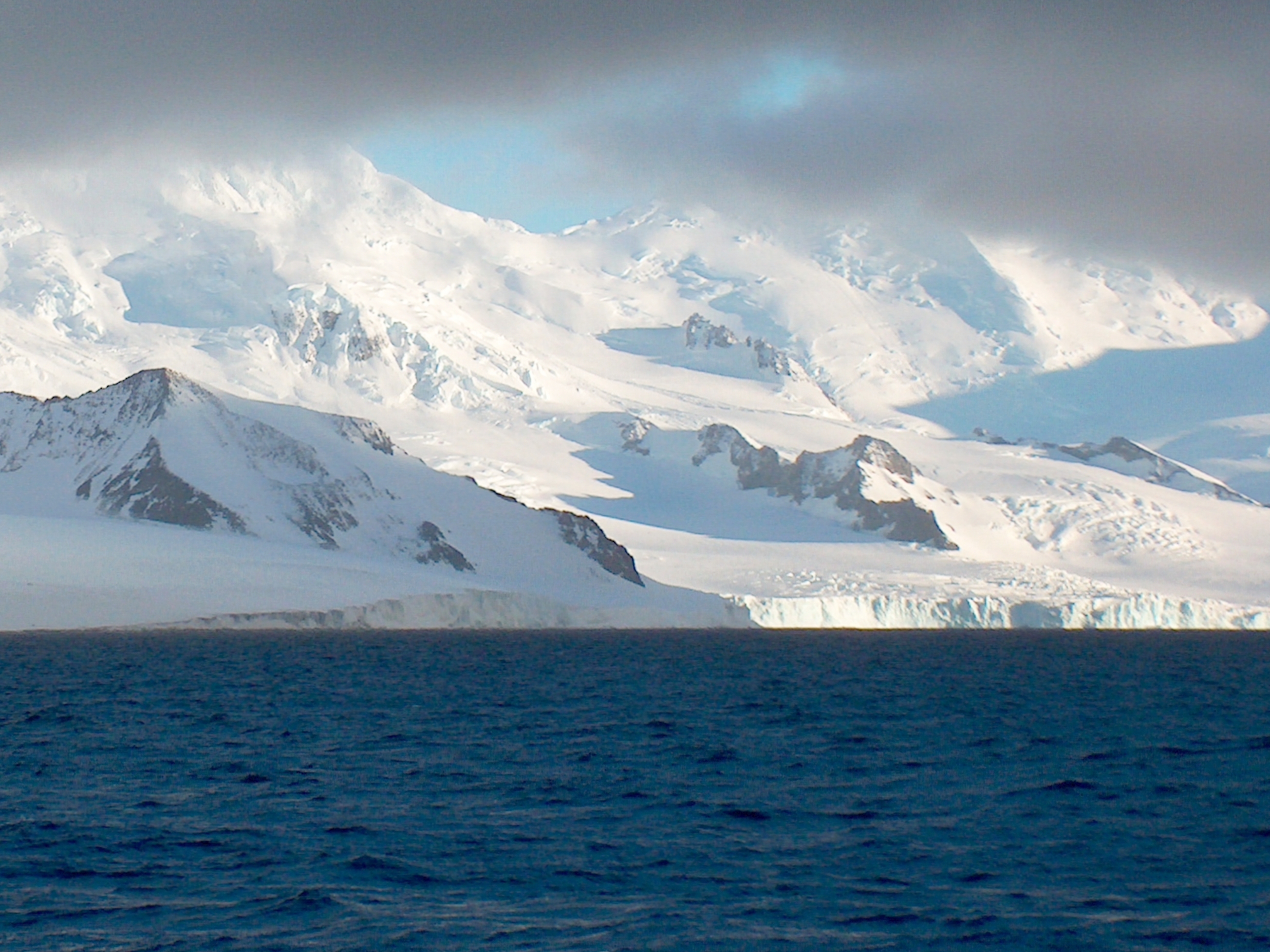 Gela Point on Livingston Island, Antarctica seen from the Bransfield Strait